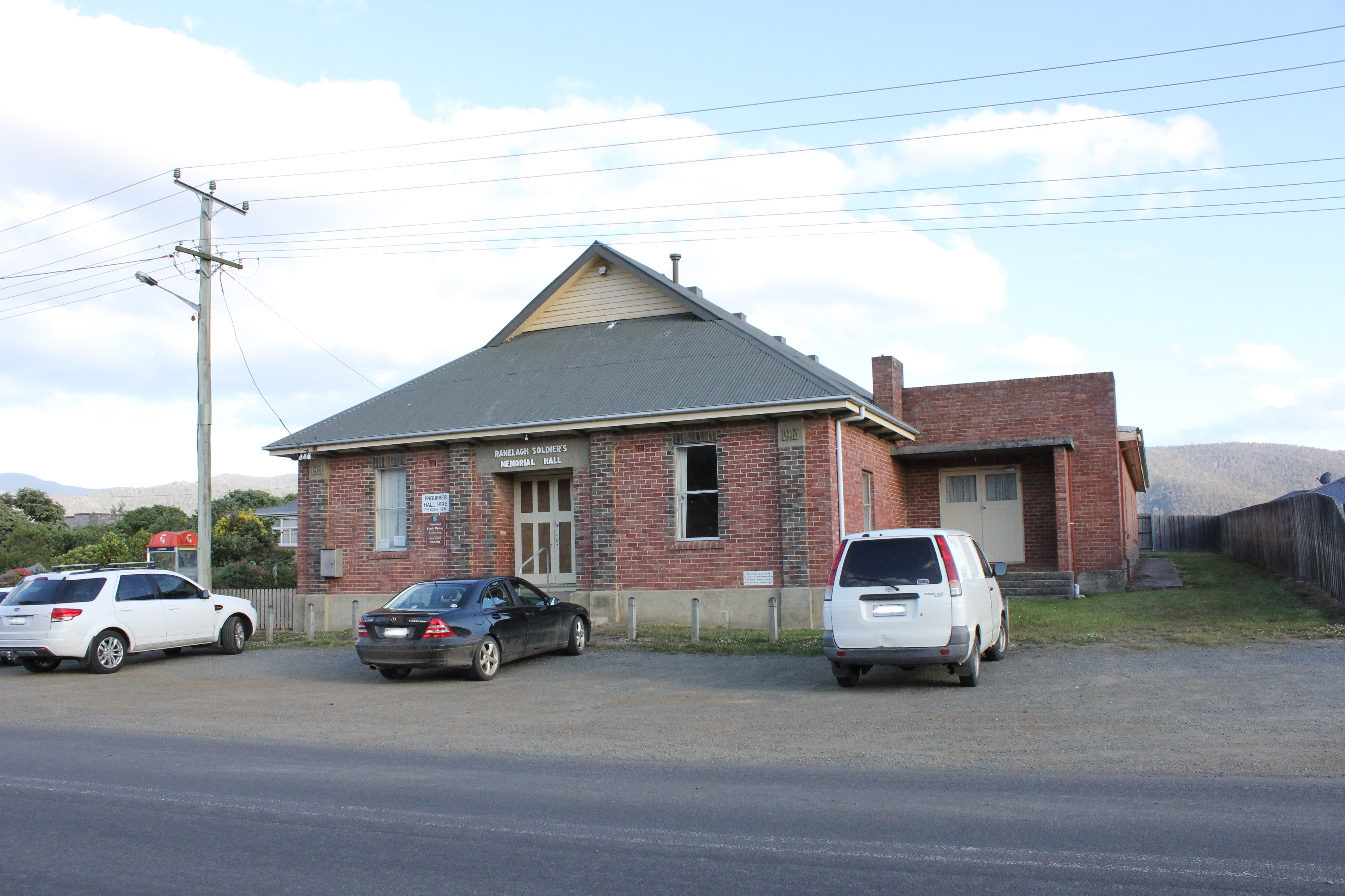 Ranelagh Soldiers Memorial Hall, Marguerite Street, Tasmania